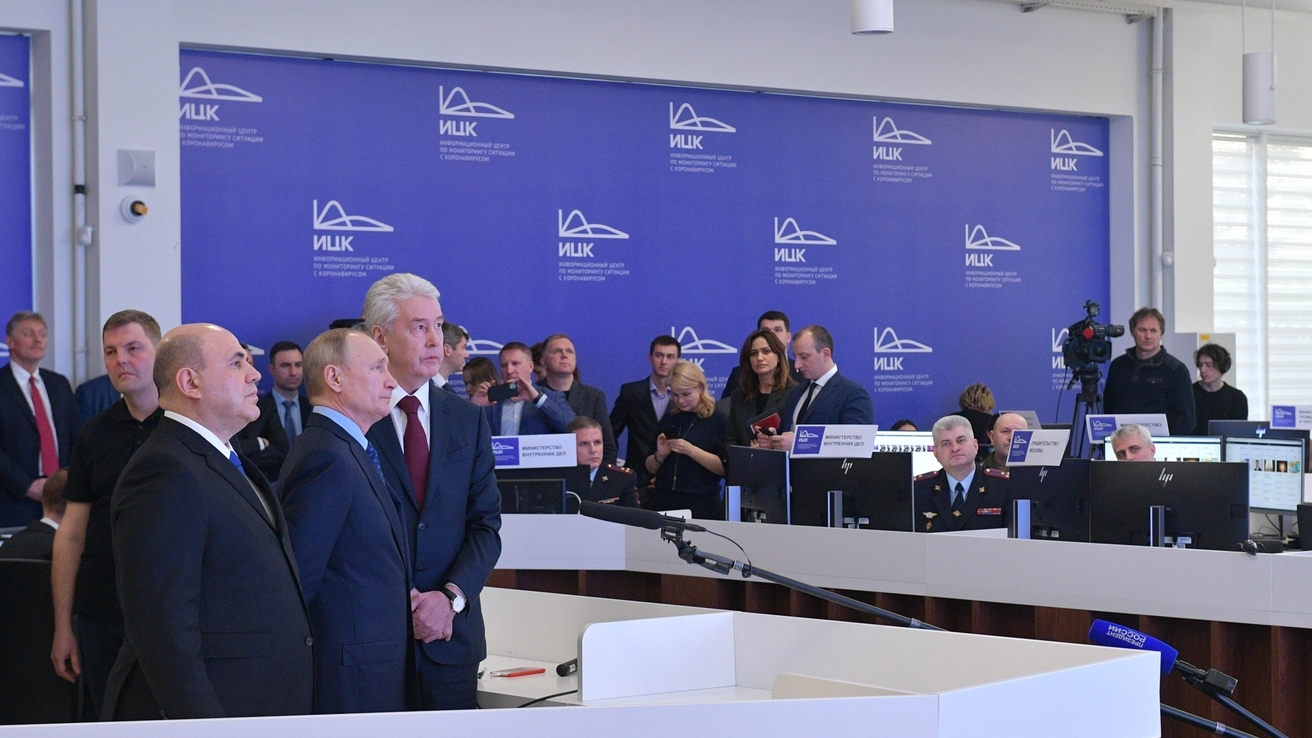 Mikhail Mishustin accompanied Russian President Vladimir Putin during a visit to the center.